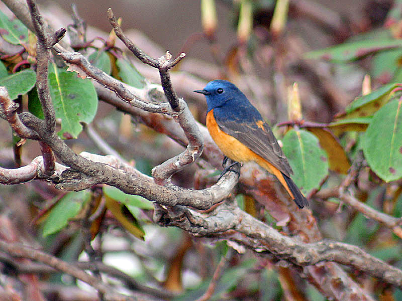 Blue-fronted Redstart Phoenicurus frontalis at Mailee Thaatch (10,500 ft.) in Kullu District of Himachal Pradesh, India.